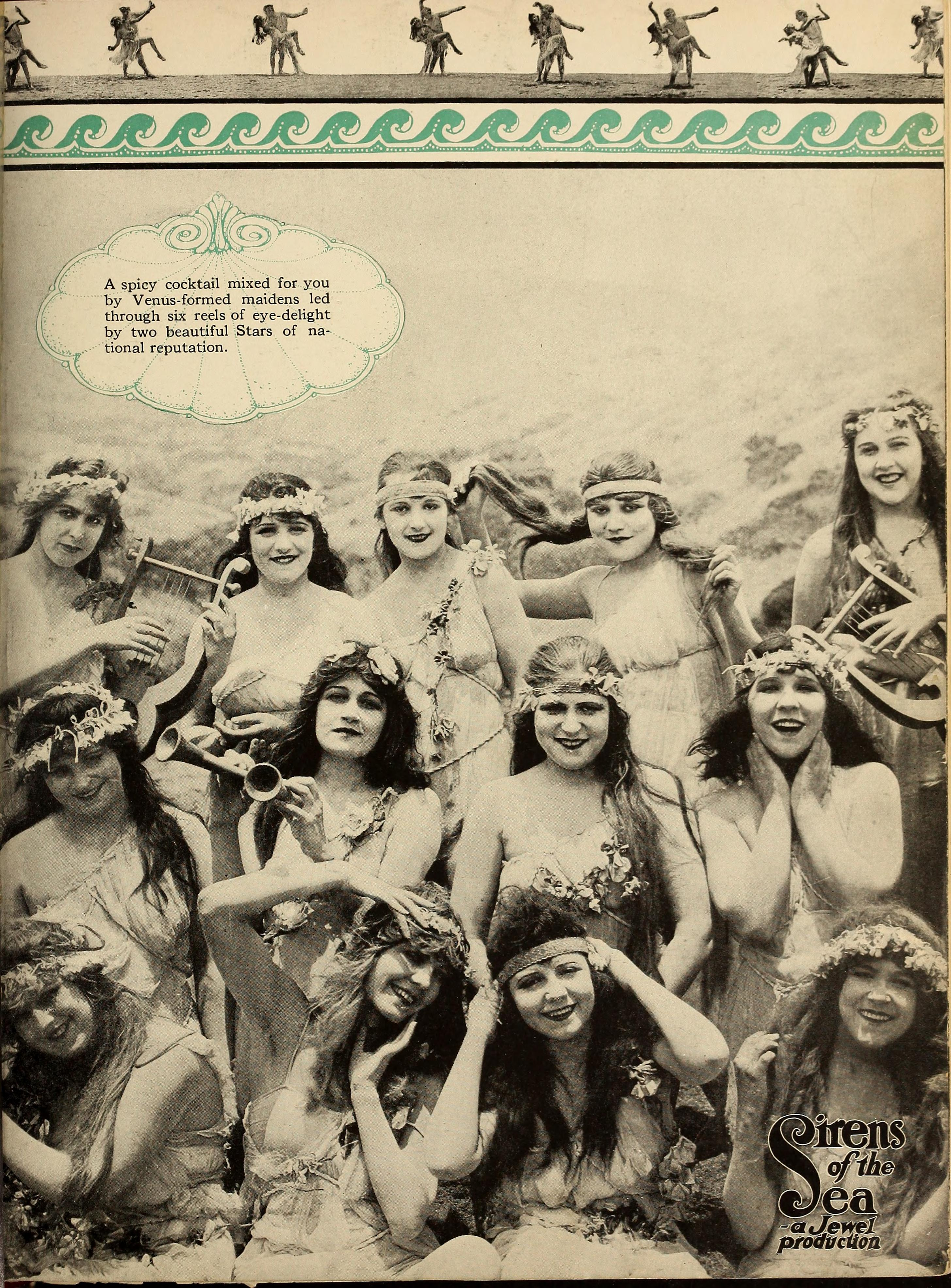 Advertisement in Motion Picture News for the American fantasy film Sirens of the Sea (1917).